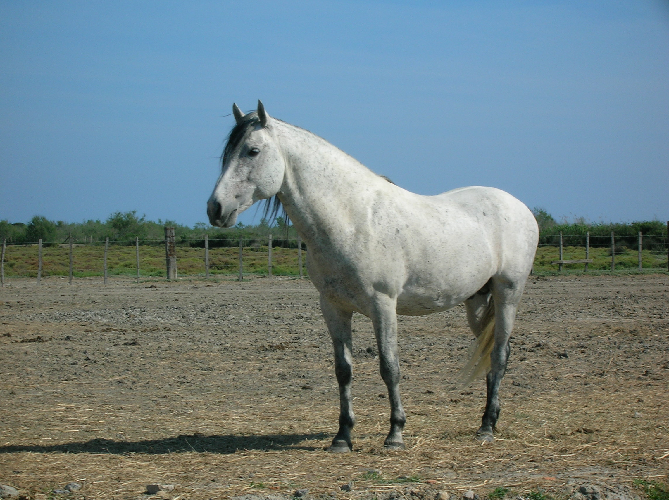 Camargue horse.